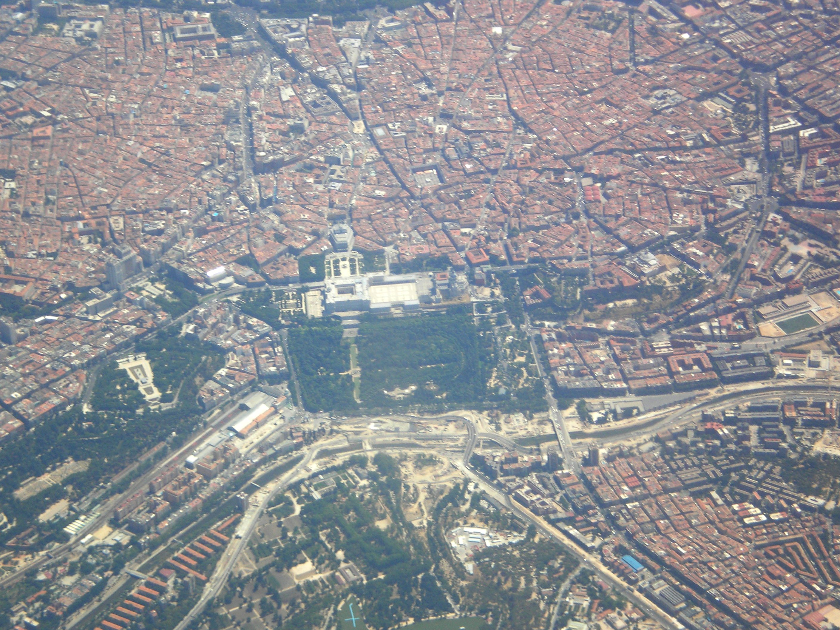 Aerial view of Madrid from a plane. We can see the Royal Palace, the cathedral and Spain square, for example.